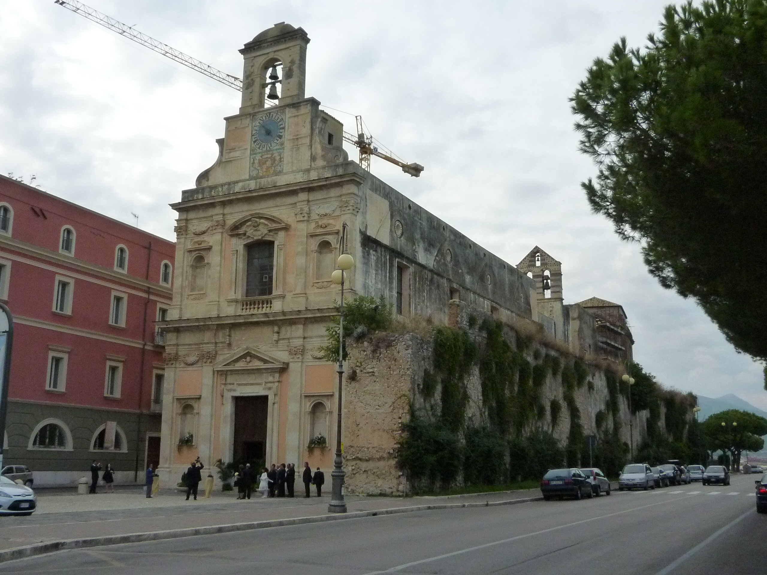 Churches in Gaeta (Italy): Santuario della Santissima Annunziata